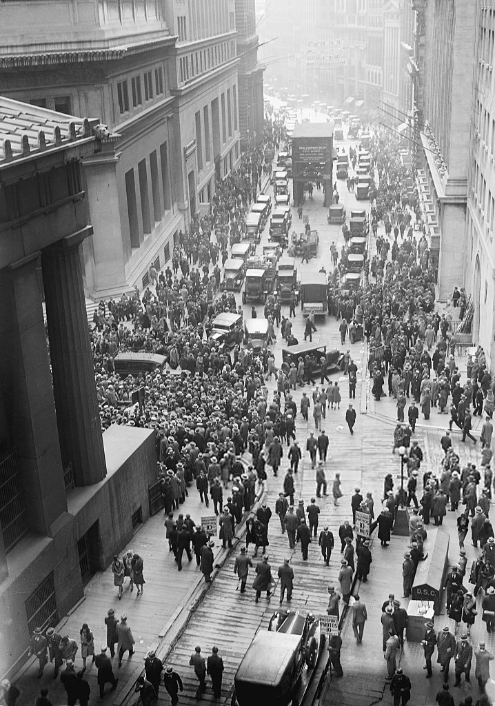 A solemn crowd gathers outside the Stock Exchange after the crash. 1929.